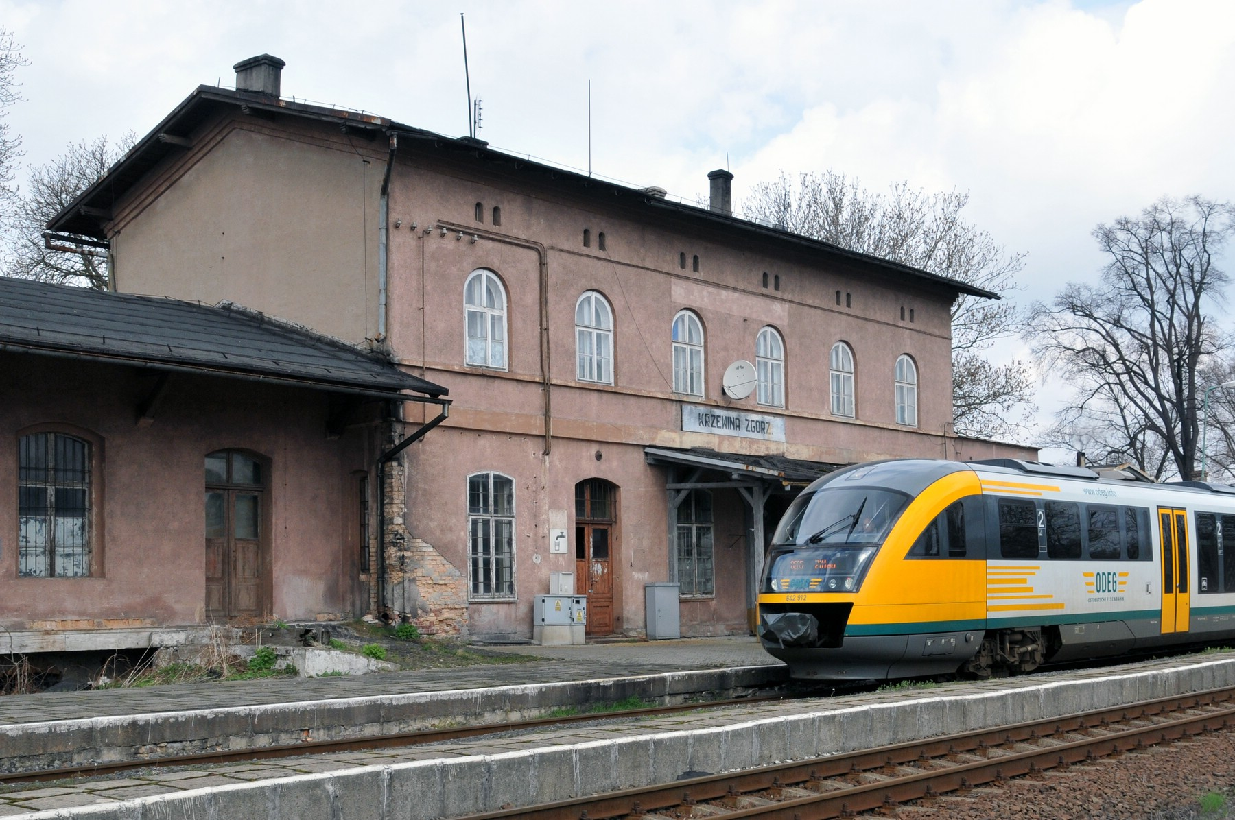 Krzewina Zgorzelecka station with a train of ODEG towards Zittau railway station